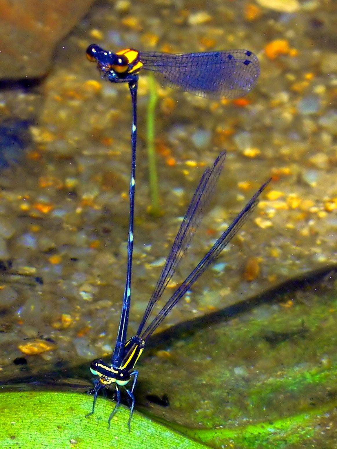 Mating Prodasineur croconota damselflies. Got a video as well.